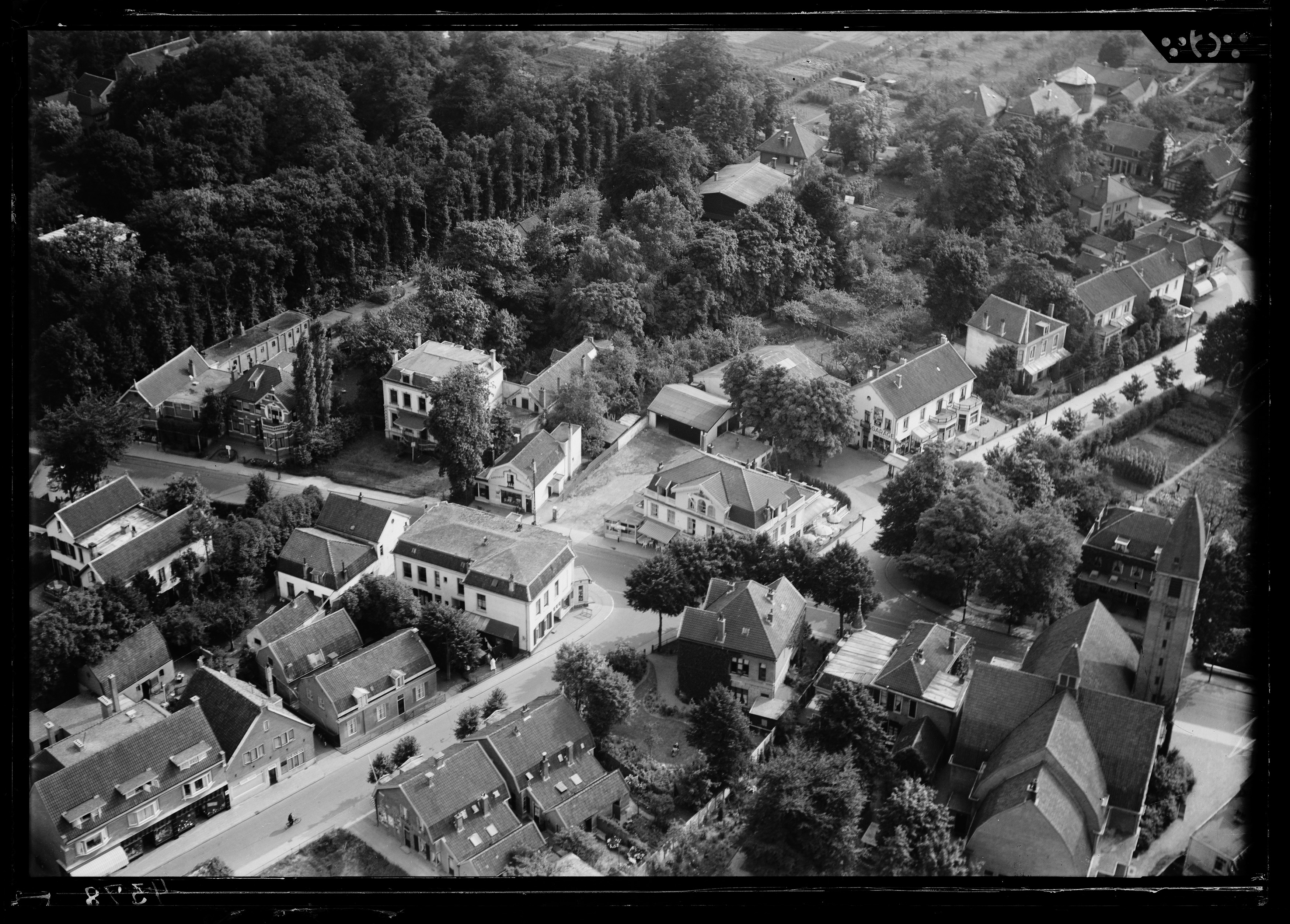 Aerial photograph of Driebergen, The Netherlands